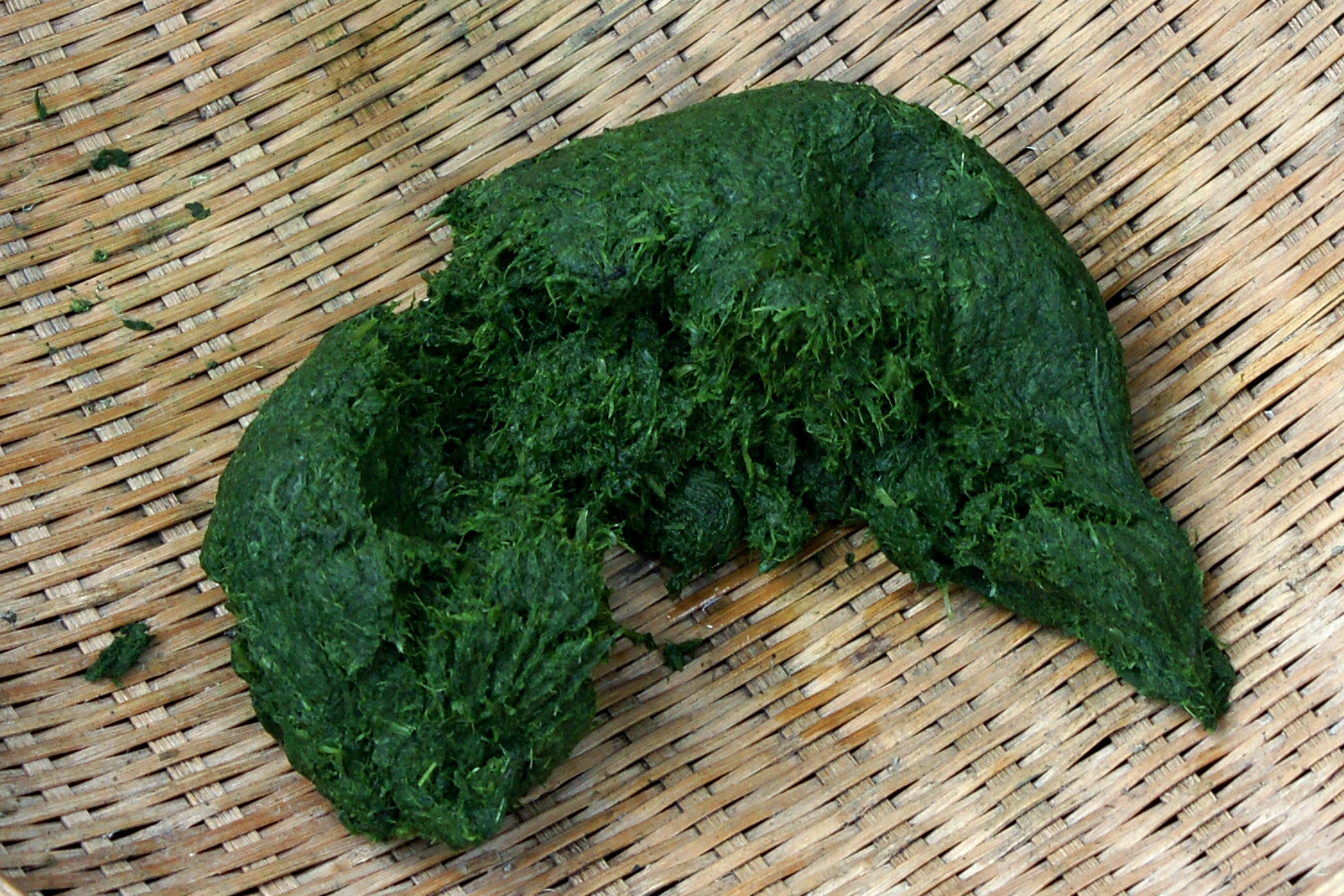 at the temple town of Hase-dera in Sakurai, Nara prefecture, Japan